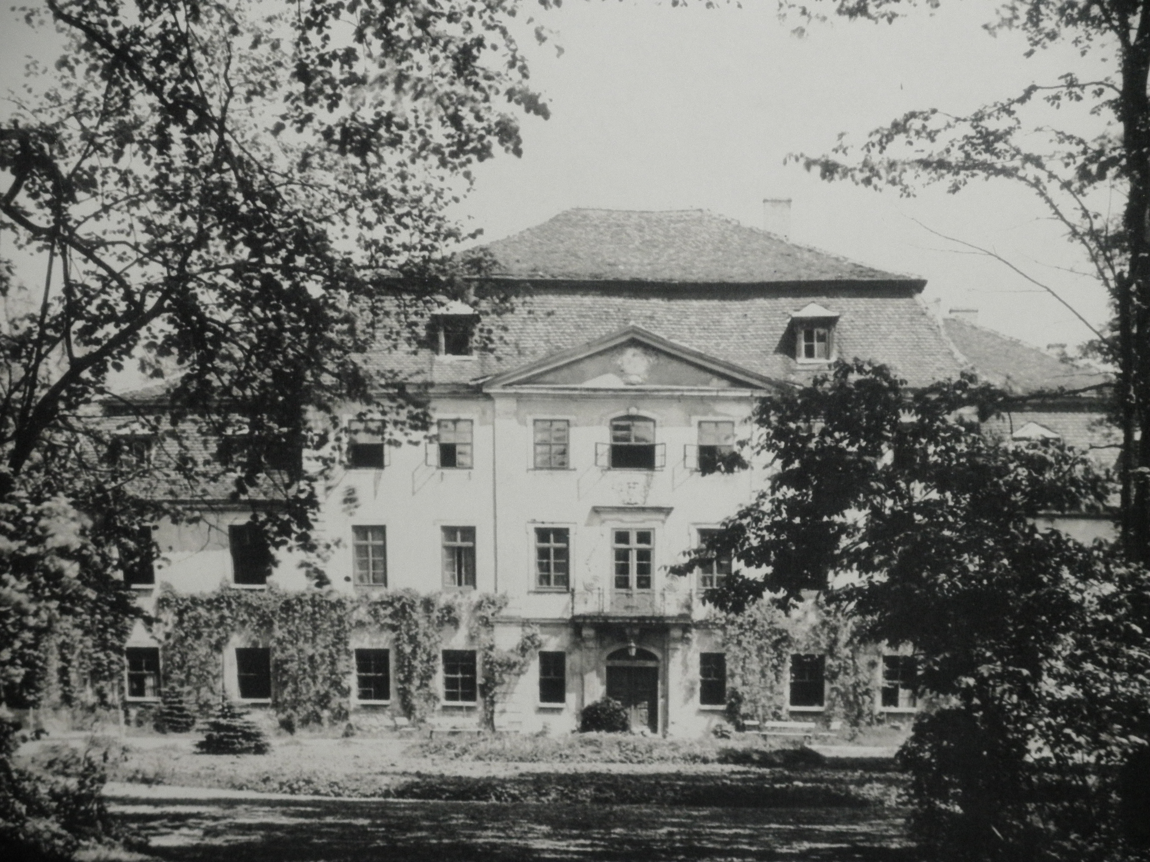 Former Castle in Stedten (Thuringia)